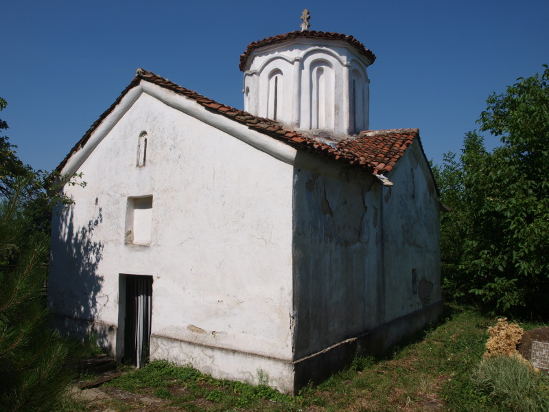 The old church of the Rakovitska monastery in northwestern Bulgaria